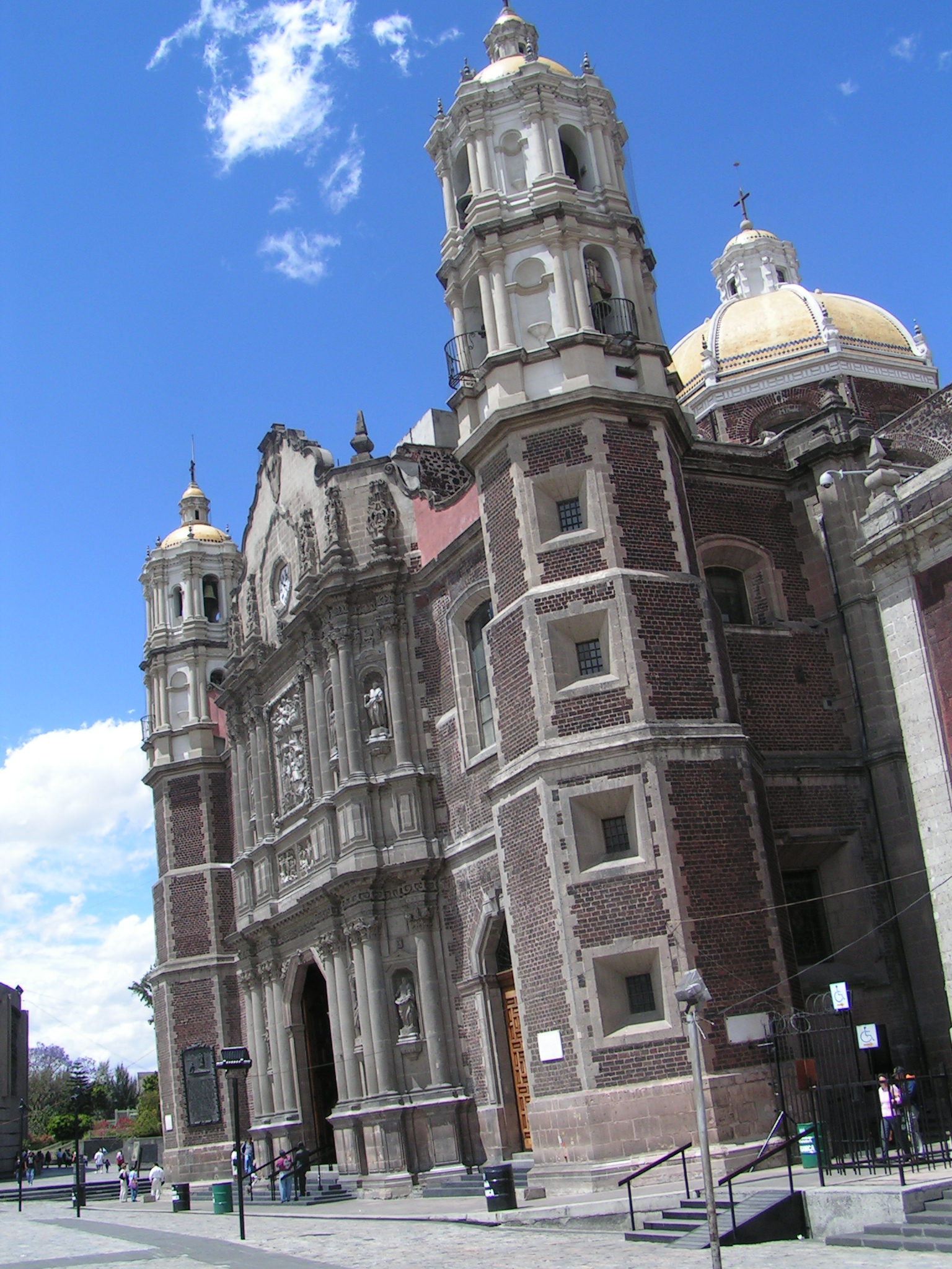 Christ the King Expiatory temple (old basilica),Sanctuary of our Lady of Guadalupe, Mexico City.